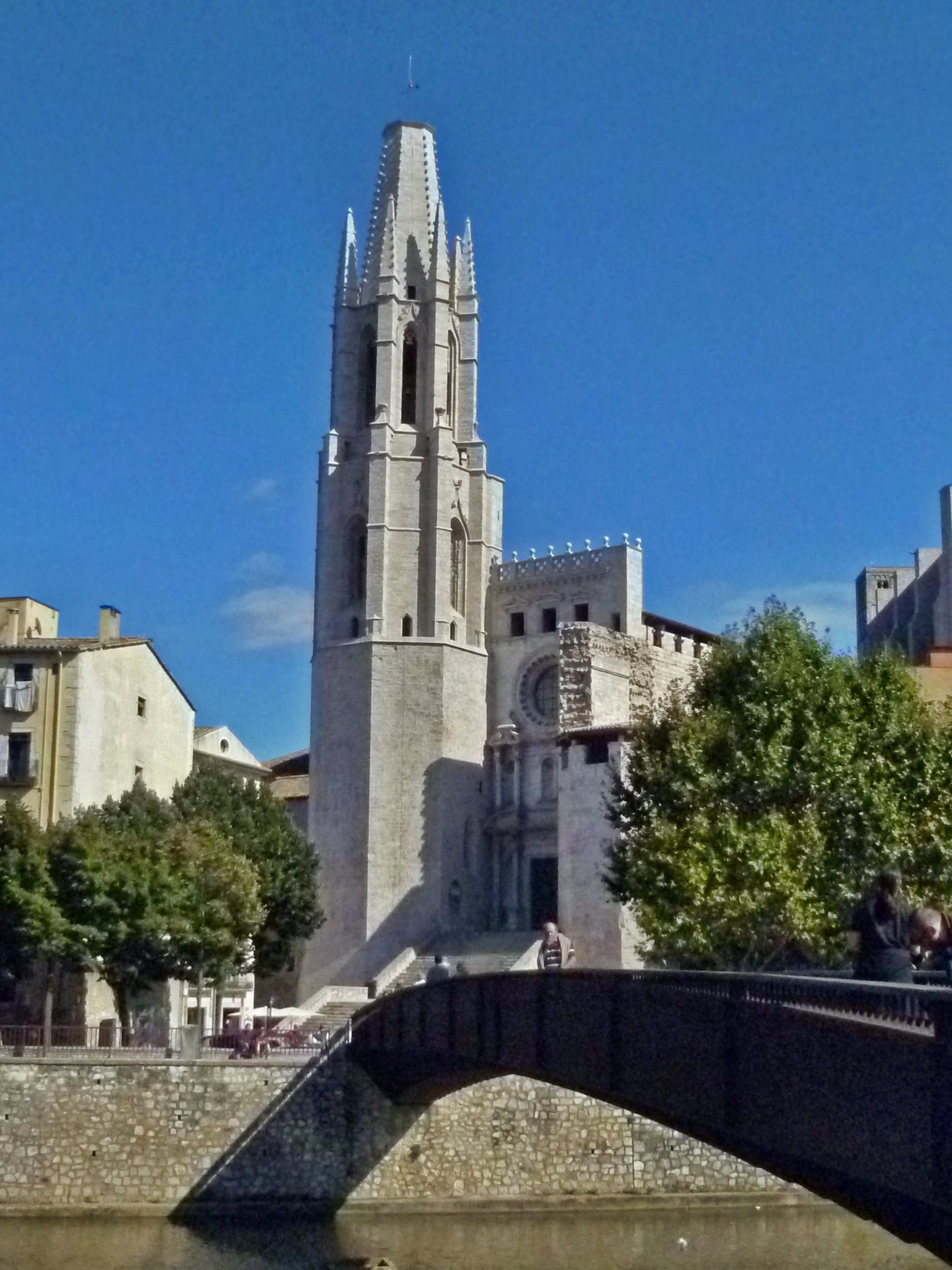 The bridges over the river Onyar: Pont de Sant Feliu with in the background the Church of Sant Feliu; Girona, Spain